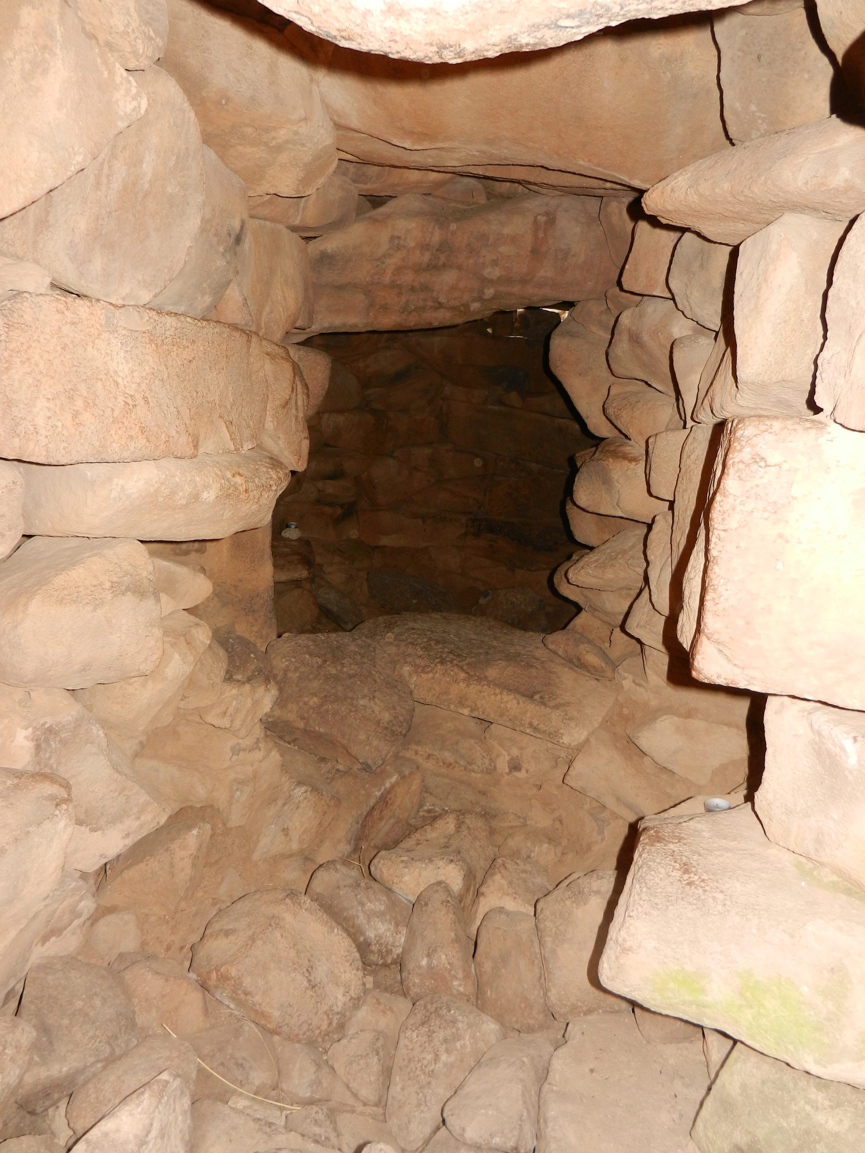 View from the passage of the burial chamber גלגל רפאים מבט מהמבואה אל חלל הקבורה